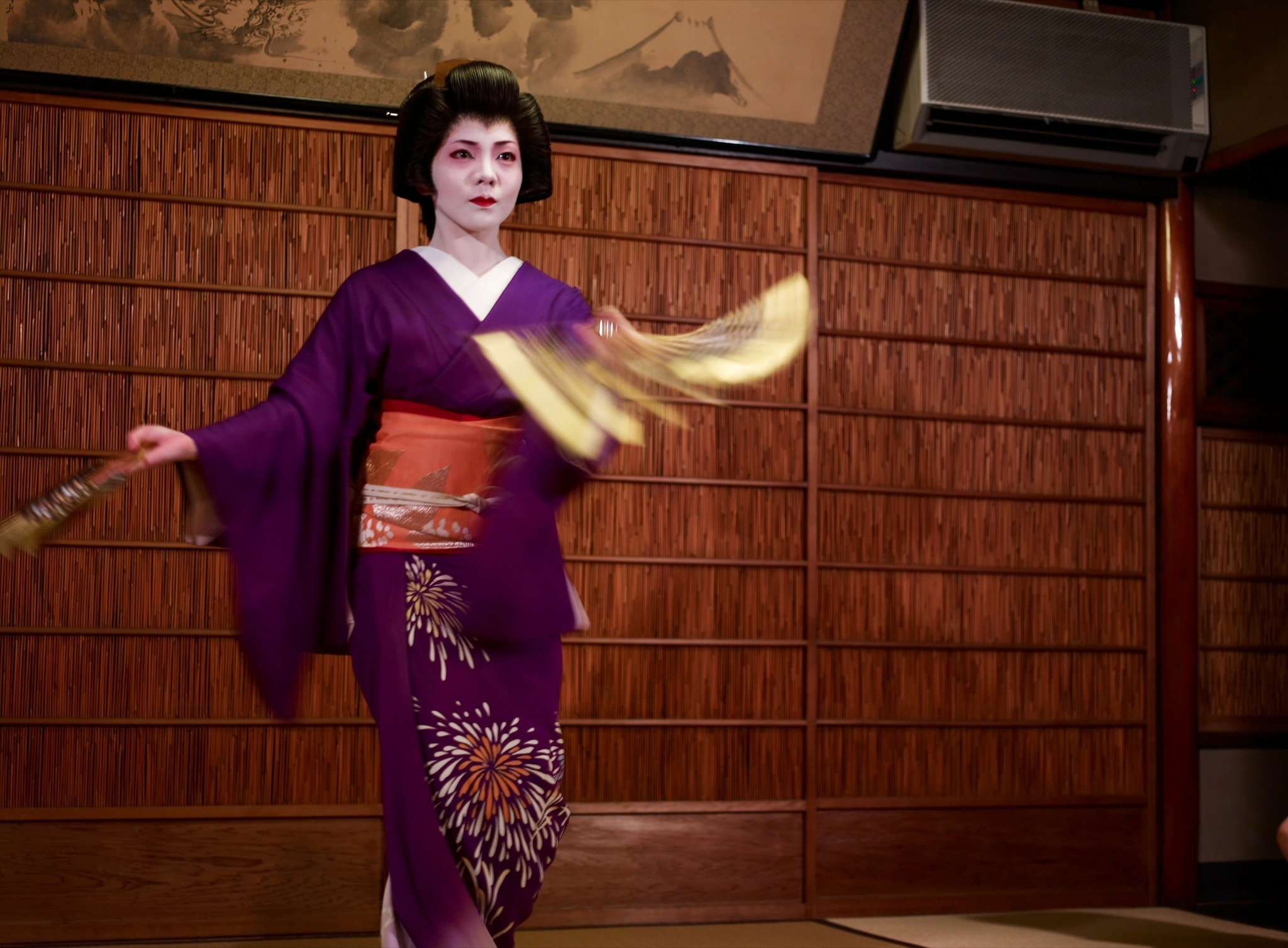 A geiko (Kyoto geisha) named Mamechika dances in Gion, Kyoto. Camera: Phase One P 45+ License on Flickr (2010-12-30): CC-BY-2.0 Flickr tags: geisha, Gion, Mamechika, places:locality=ilArHGKYBJycAI9KsQ